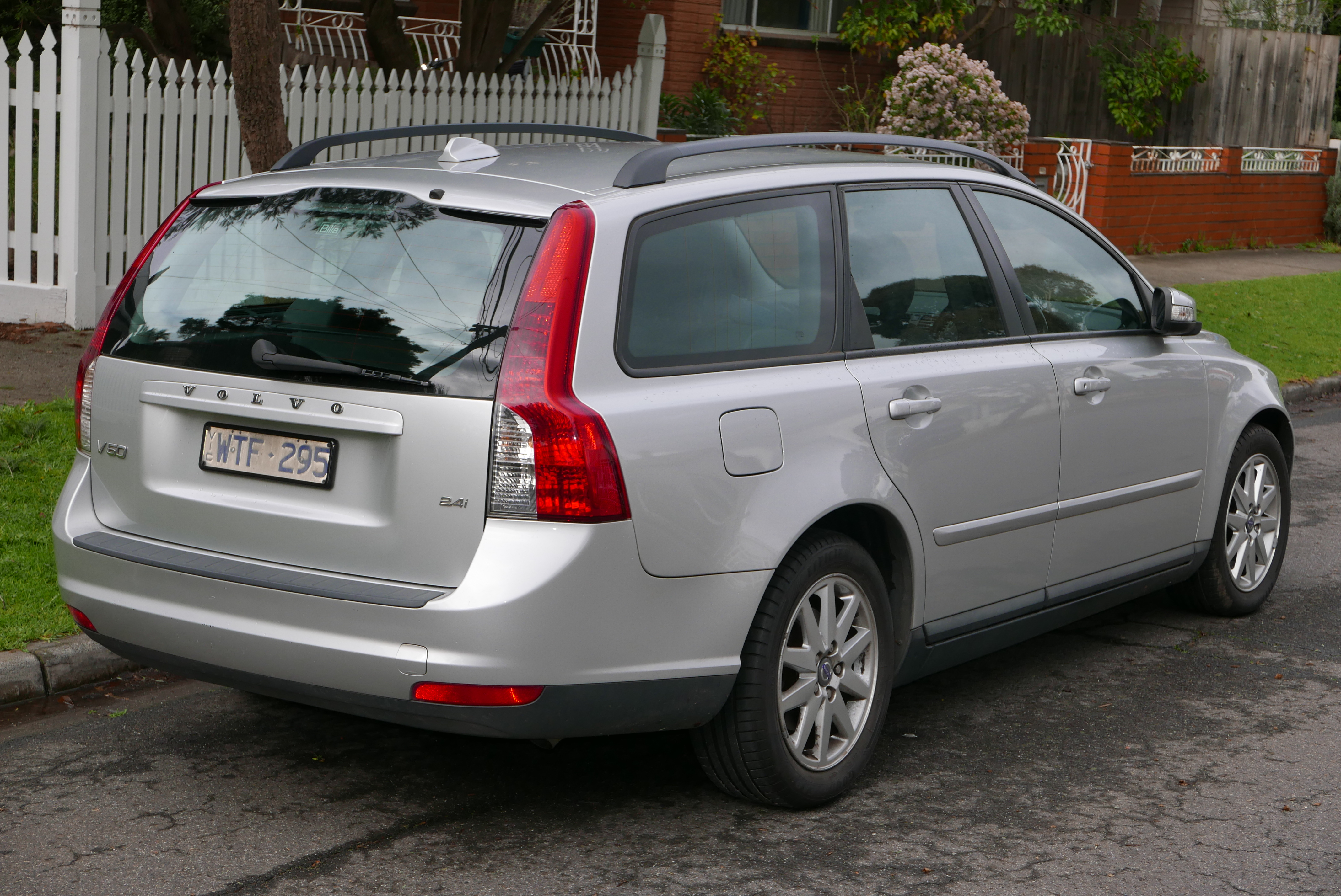 2008 Volvo V50 (MY09) LE station wagon. Photographed in Thornbury, Victoria, Australia. Vehicle registration enquiry resultsJurisdictionVictoriaRegistrationWTF295Chassis codeYV1MW385992456334Engine code4315133Compliance date2008-09Year of manufacture2008